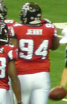 If used somewhere other than Wikipedia, Nelson, by name.